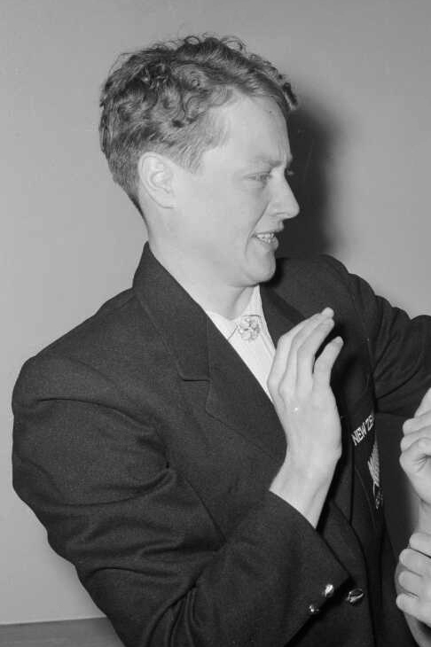 Winkie Griffin, Wellington